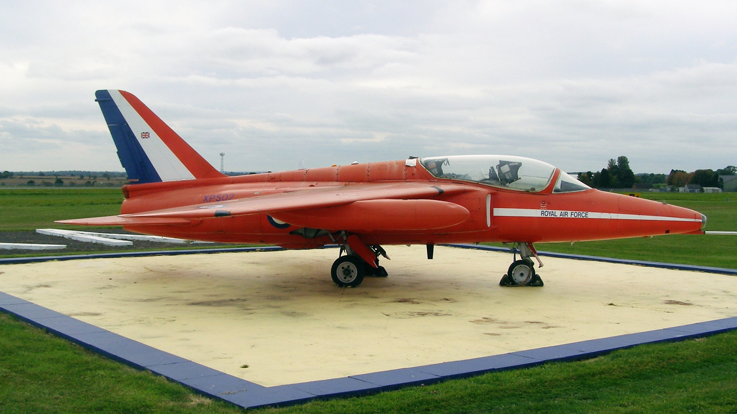 Folland Gnat T1 XP502 in Red Arrows colour scheme on display at Kemble Aerodrome, England